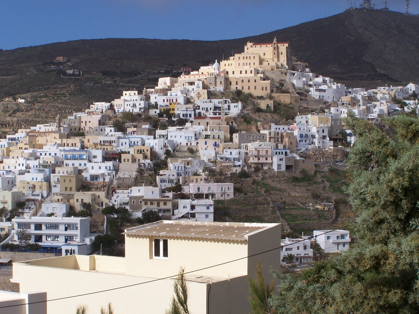 Ermoupolis Syros. Ermoupolic Syros Greece, Greece.